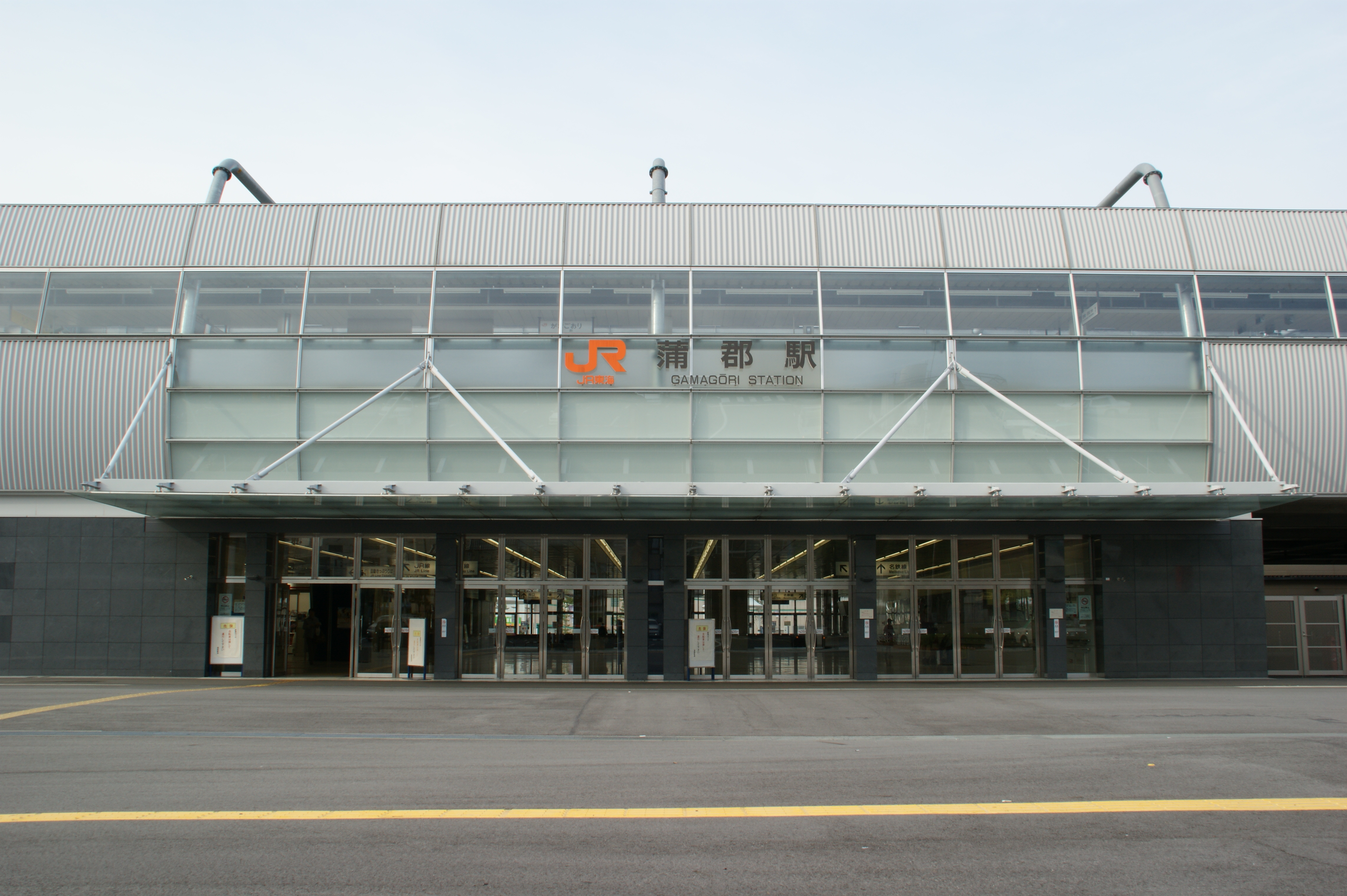 Central Japan Railway, Gamagori Station.(Gamagori City, Aichi Prefecture, Japan)